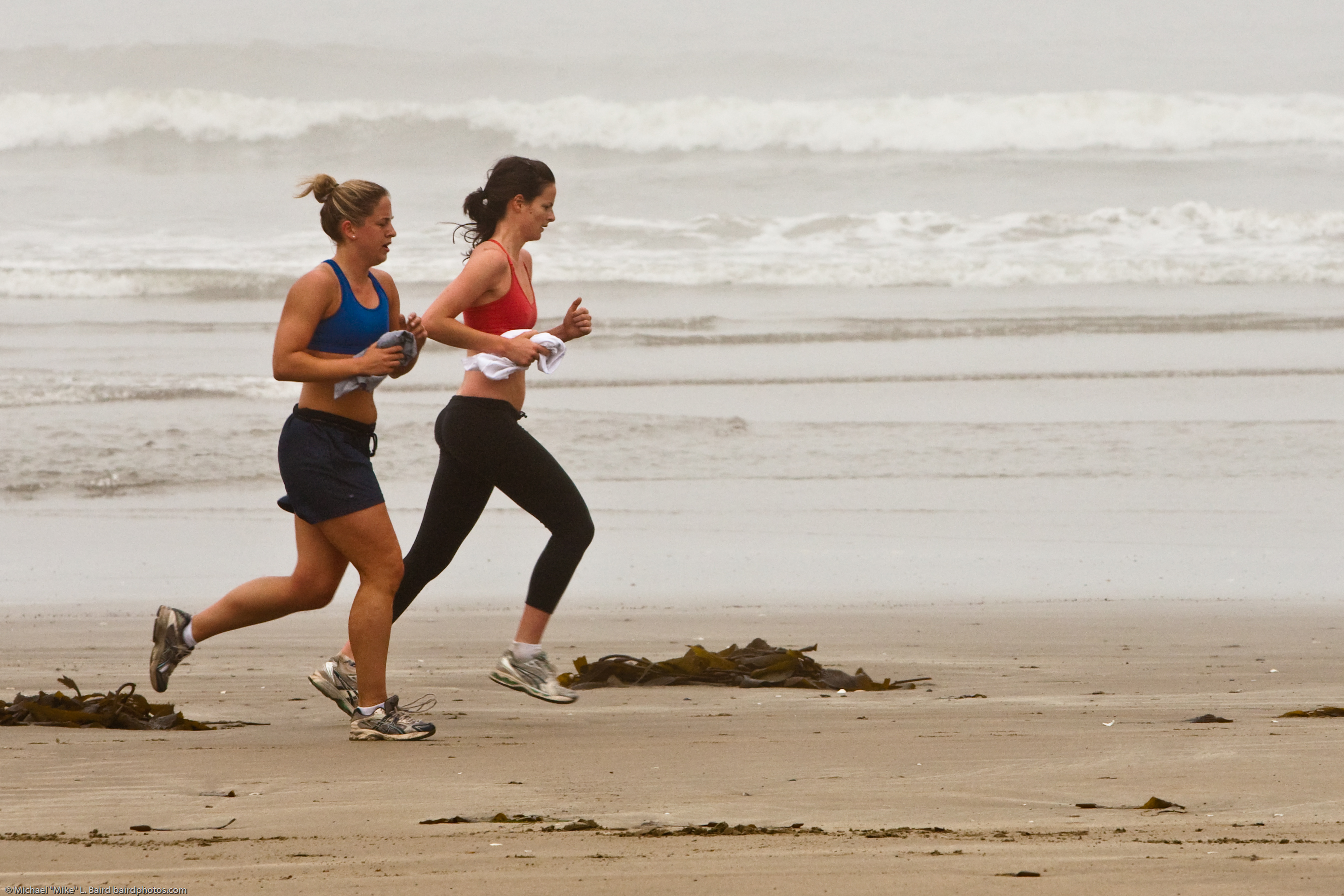 Two healthy female joggers on foggy Morro Strand State Beach, 17 May 2009, Morro Bay, CA.